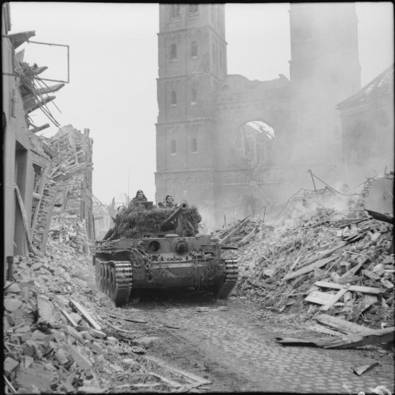 The British Army in North-west Europe 1944-45 A Cromwell tank of 15th/19th King’s Royal Hussars, 11th Armoured Division, with infantry aboard, advances through the rubble of Uedem, Germany, 28 February 1945.